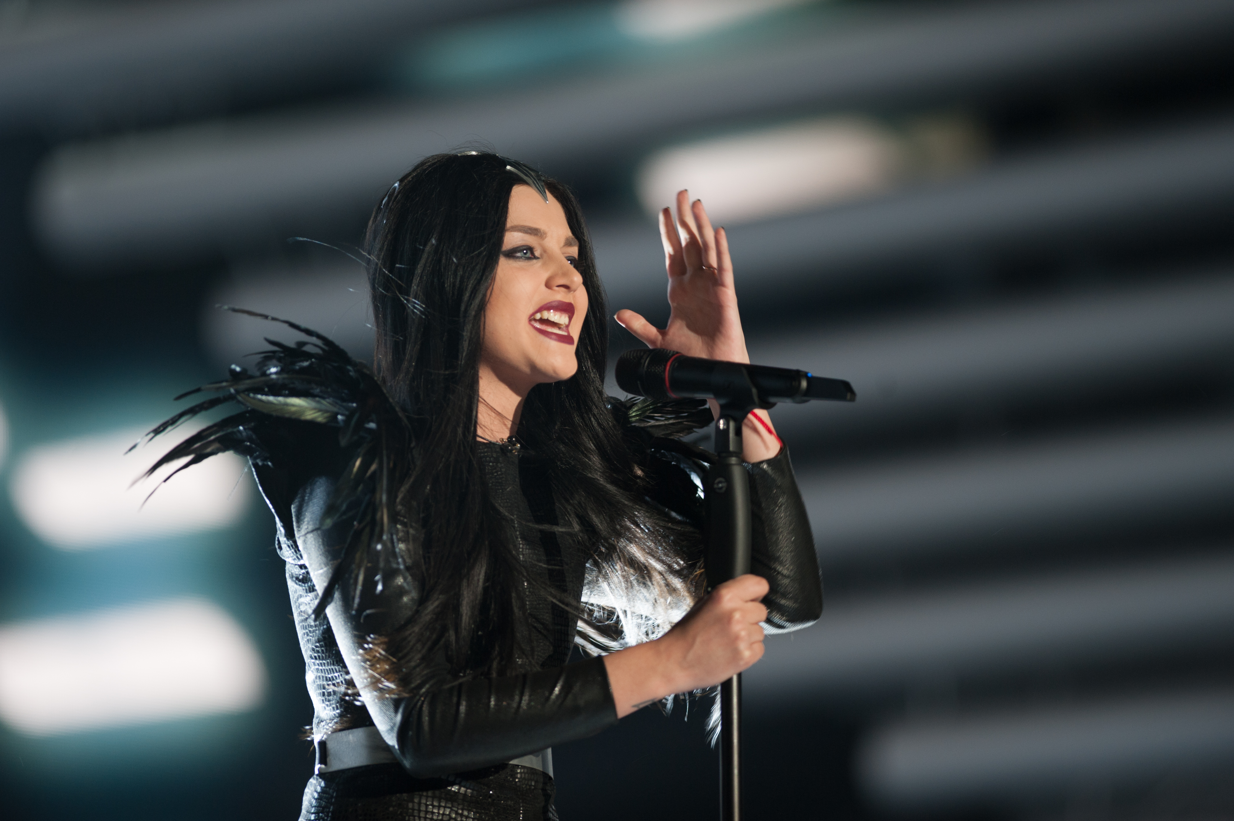 Eurovision Song Contest Vienna 2015: Nina Sublatti, Georgia